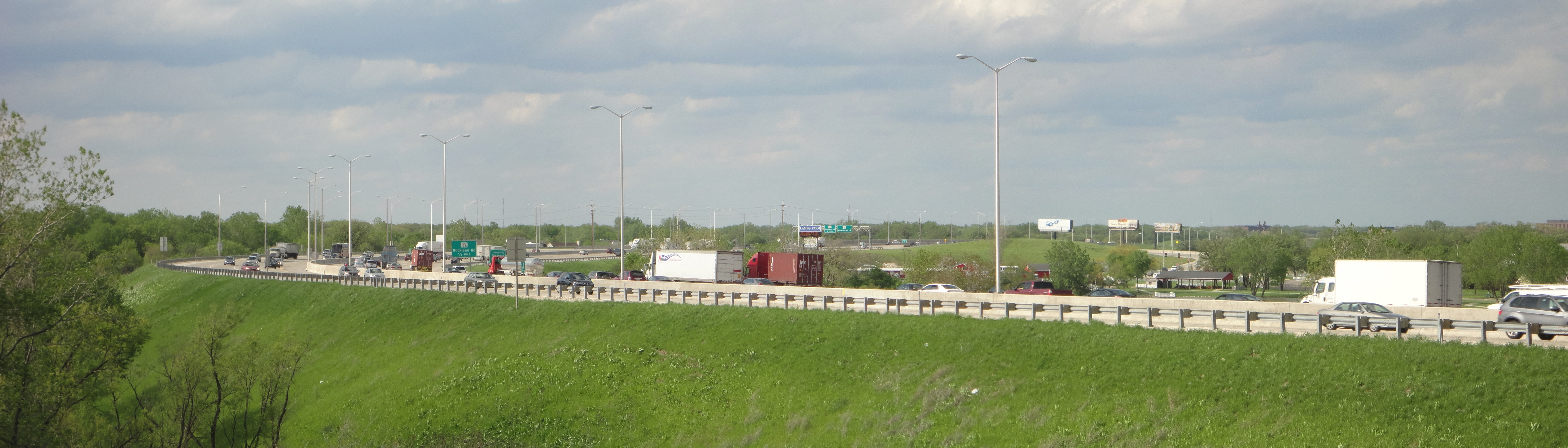 A view of Interstate 94 (Tri-State Tollway) near the exit at Illinois Route 176 from the Old School Forest Preserve in Libertyville, Illinois.